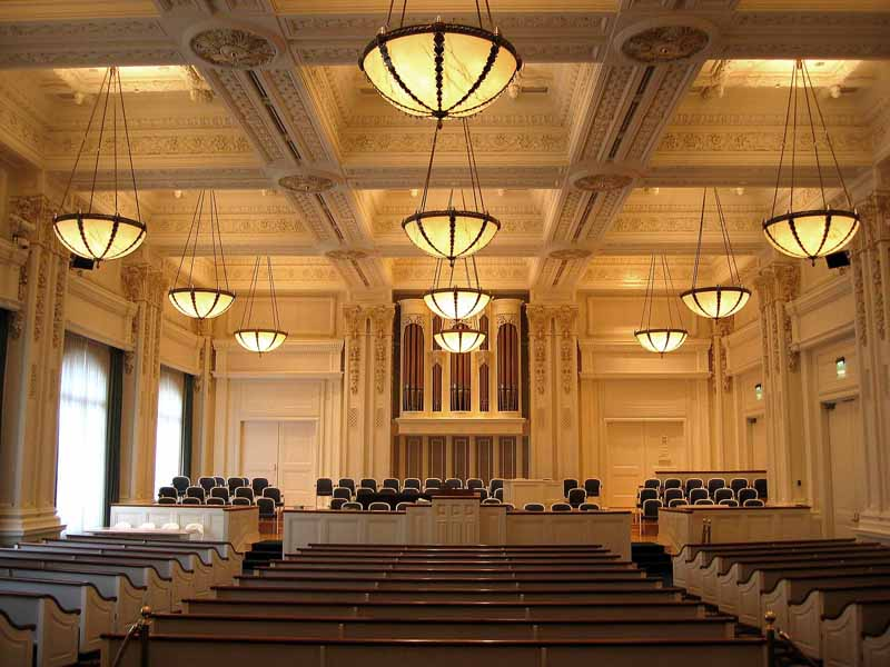 Facade picture taken from the back